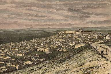 Wood engraving drawn by Taylor, engraved by Hildibrand, 1886. 19x13cm.